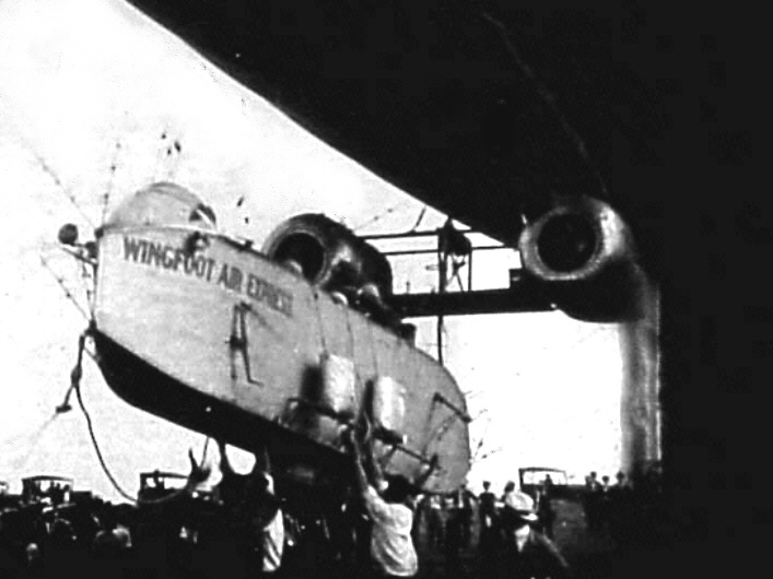 The Wingfoot Air Exprress prior to liftof from Chicago's Grant Park site.